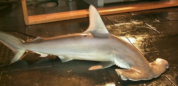 Scalloped hammerhead ( Sphyrna lewini ). Gulf of Mexico.